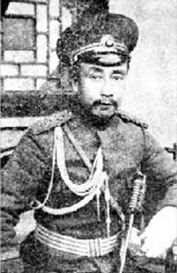 Yang Zanxu at the age of 36